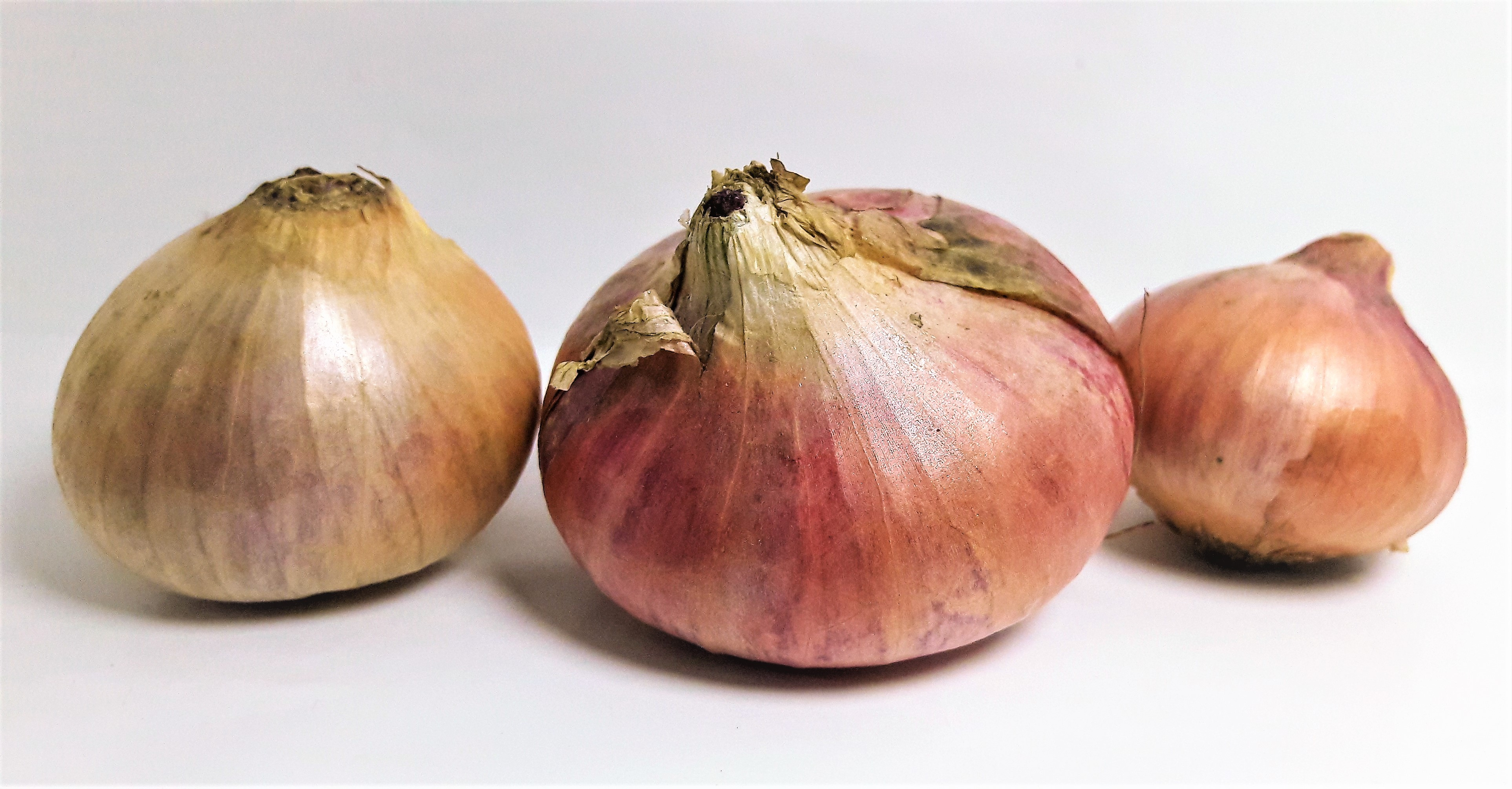 The onion, also known as the bulb onion or common onion, is a vegetable and is the most widely cultivated species of the genus Allium.